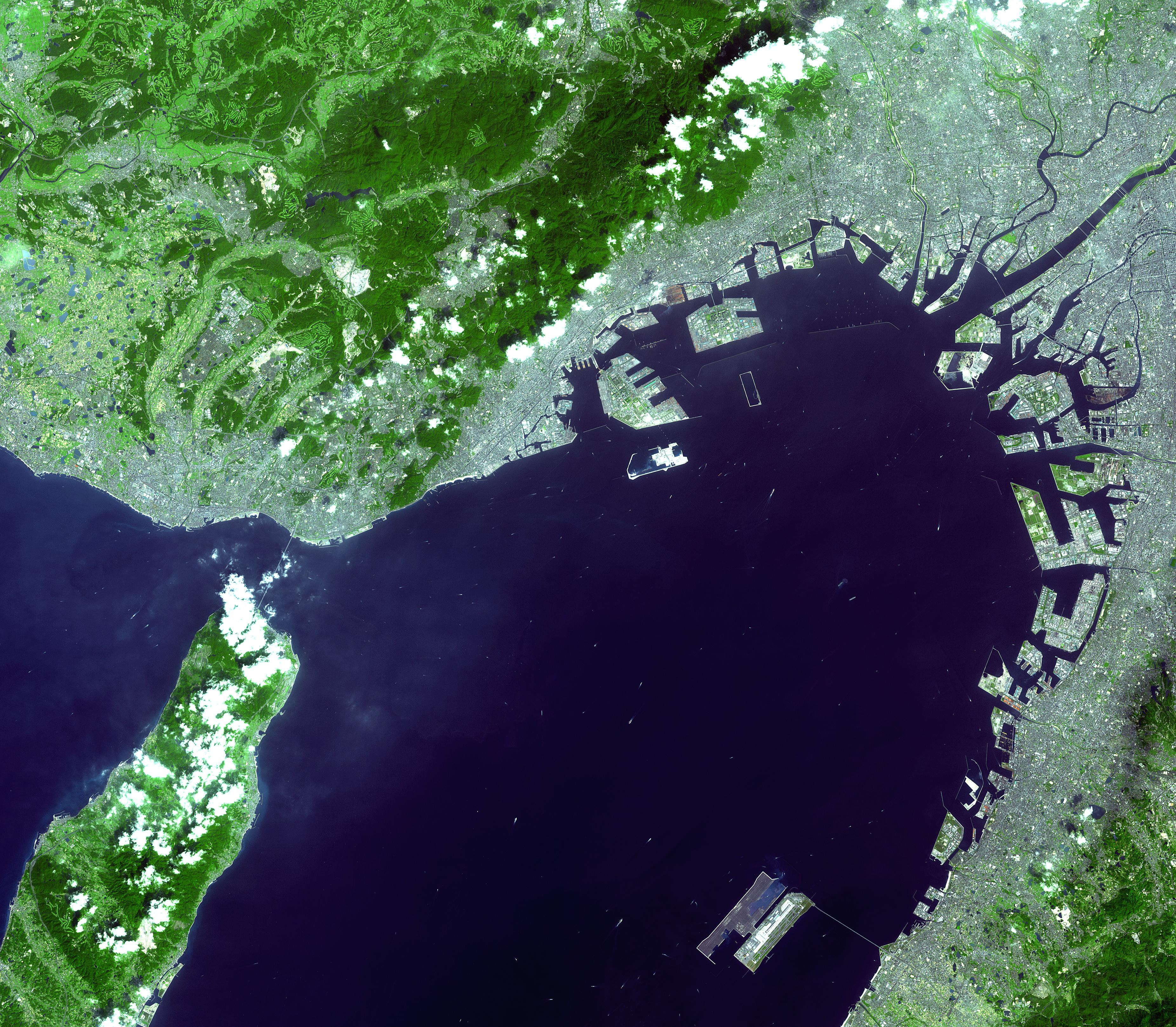 Satellite image of Osaka Bay in Japan. This shows the airport on its artificial island in the bay. For a closeup of the island itself, see Image:Kansai closeup.jpg According to the original name of the file, the photo was taken in February 2003.